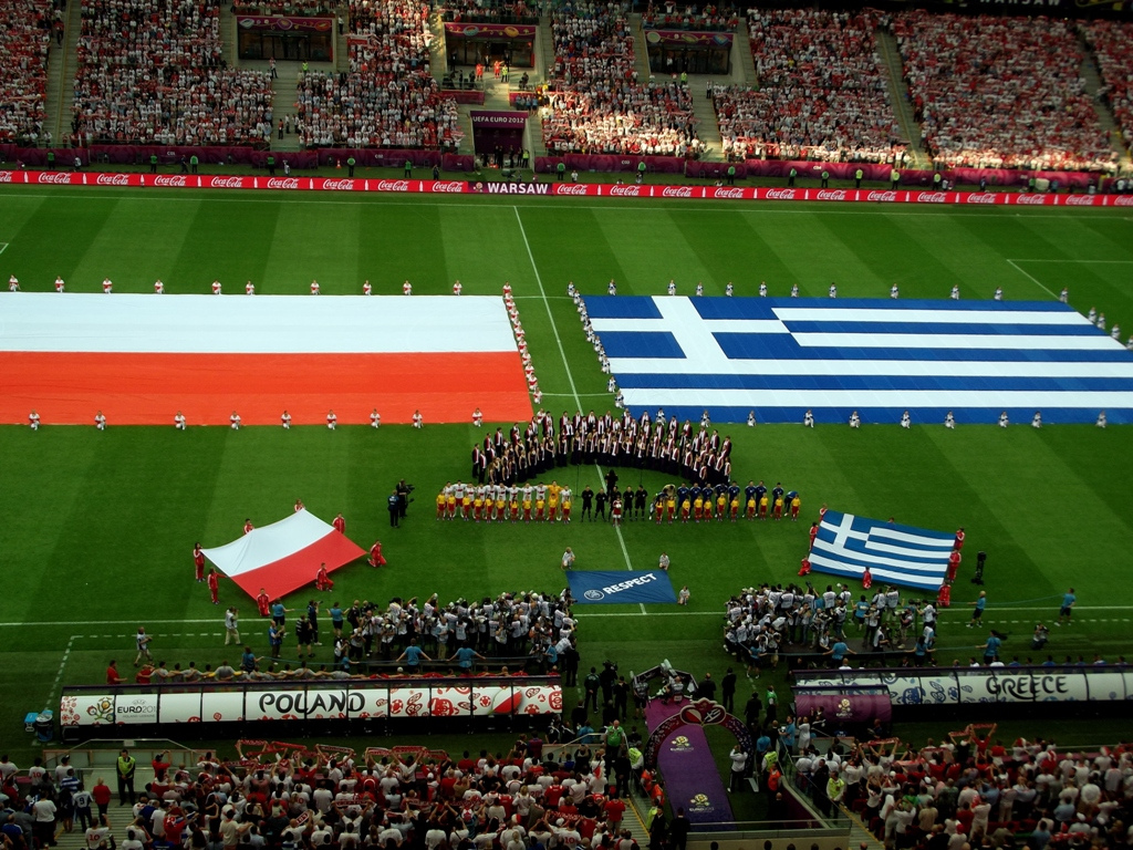 First day of UEFA Euro 2012, Warsaw, opening match Poland vs Greece.